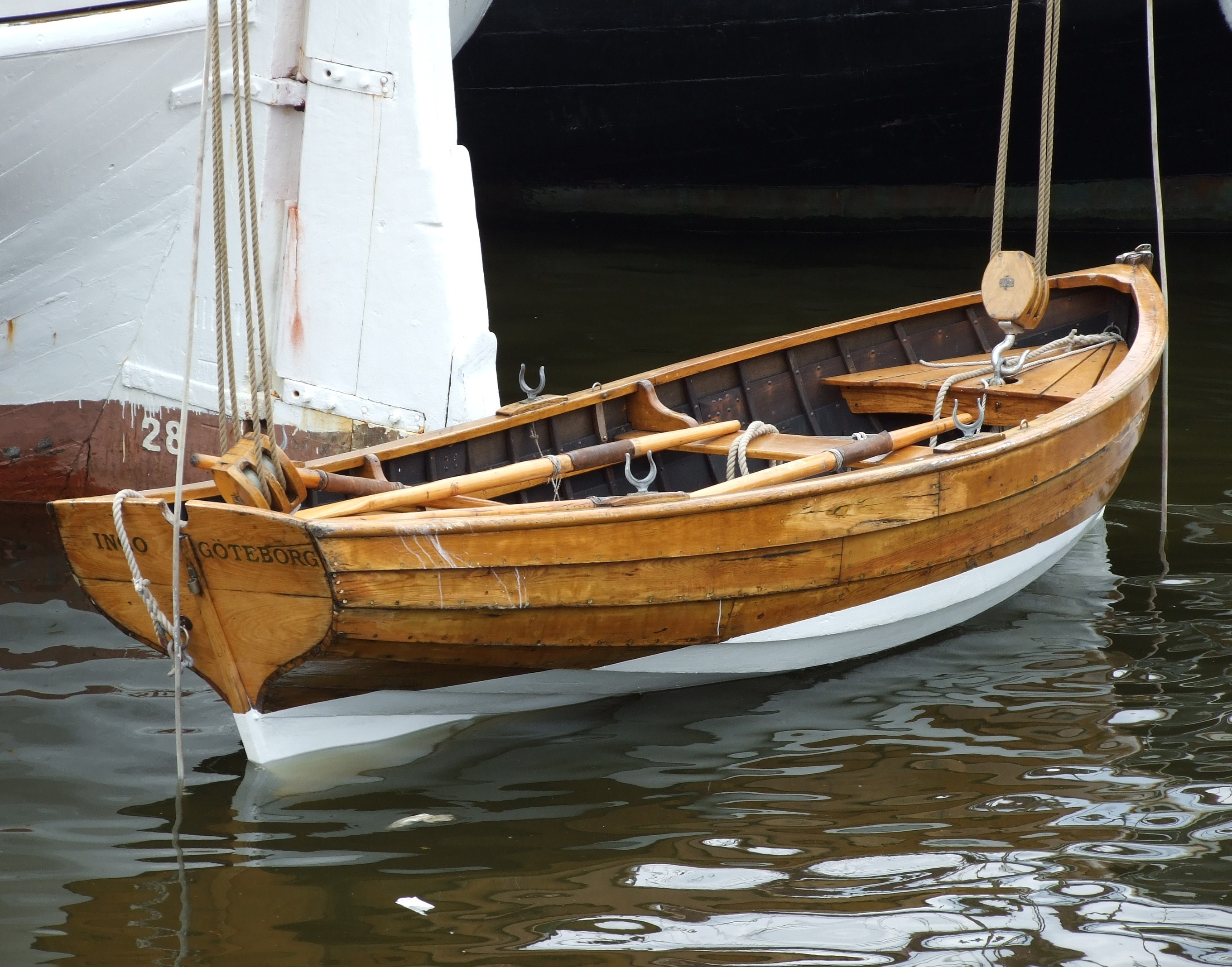 Dinghy, boat. The Tall Ship Races Szczecin, Poland, 2007.